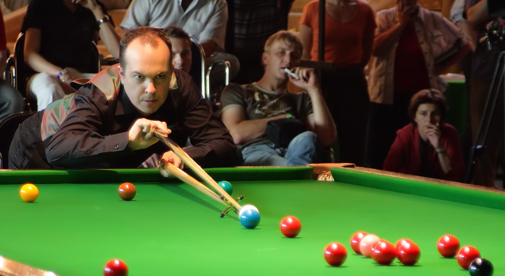 Fergal O'Brien at the Paul Hunter Classics 2007